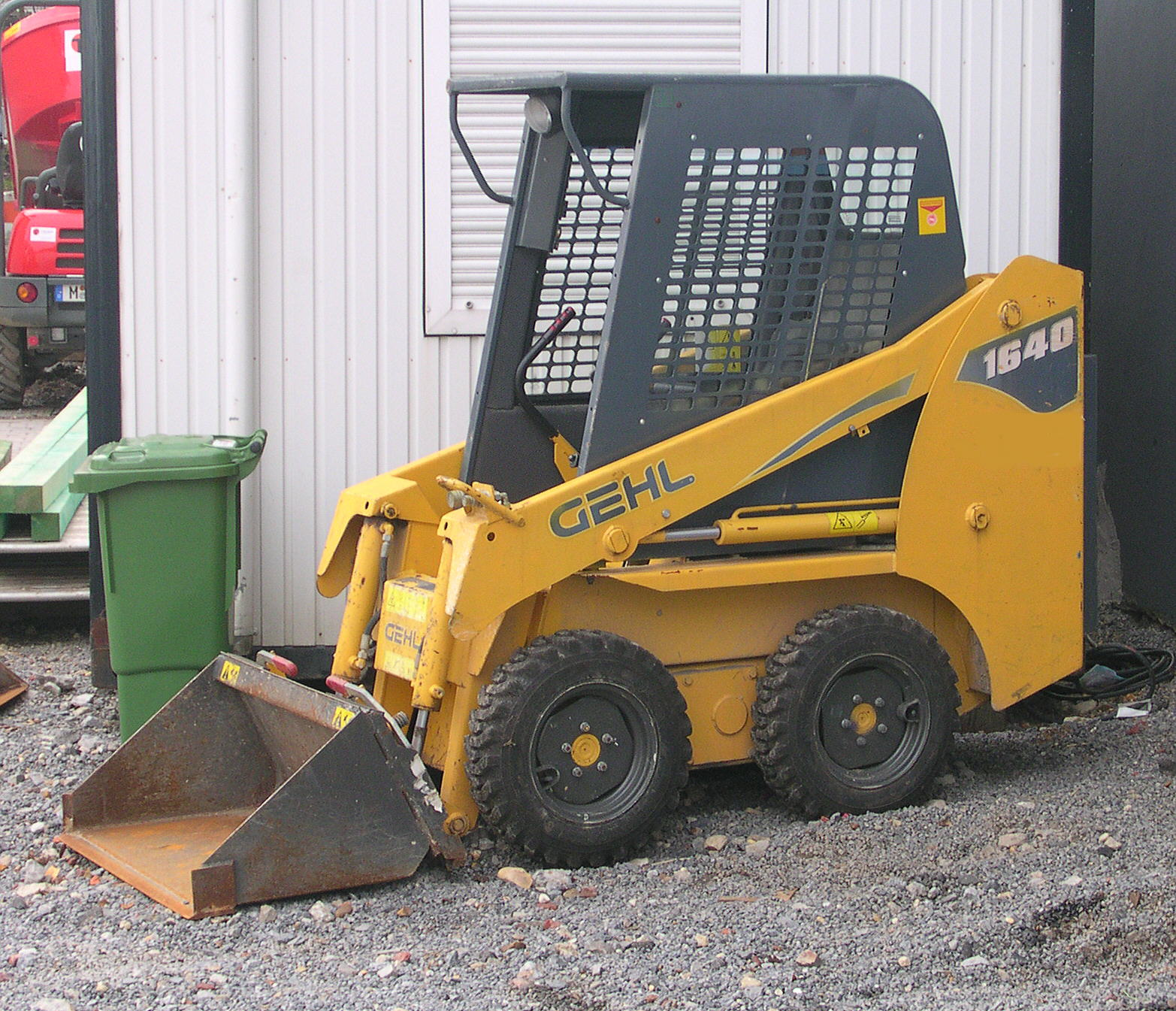 Gehl compact loader SL 1640, Kubota diesel engine, power output 16 kw, operating capacity 355 kg, standard bucket 0,17m³, operating weight 1290 kg, overall height 1810 mm, Overall length with bucket 2.500 mm